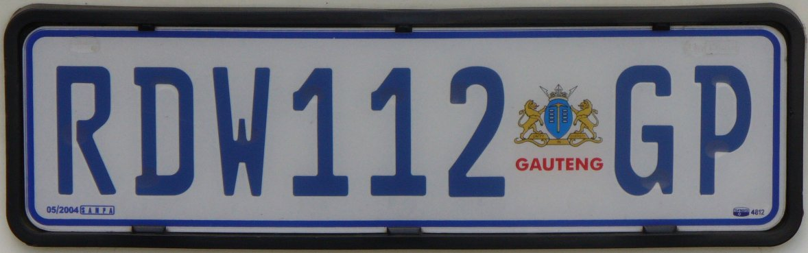 Autor: Lars H. Rohwedder (User:RokerHRO) Self-made photograph License: PD